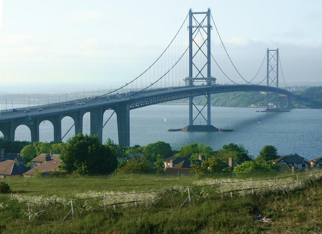 The Forth Road Bridge Picture taken from the former site of the (now demolished) Forth Bridges Hotel.